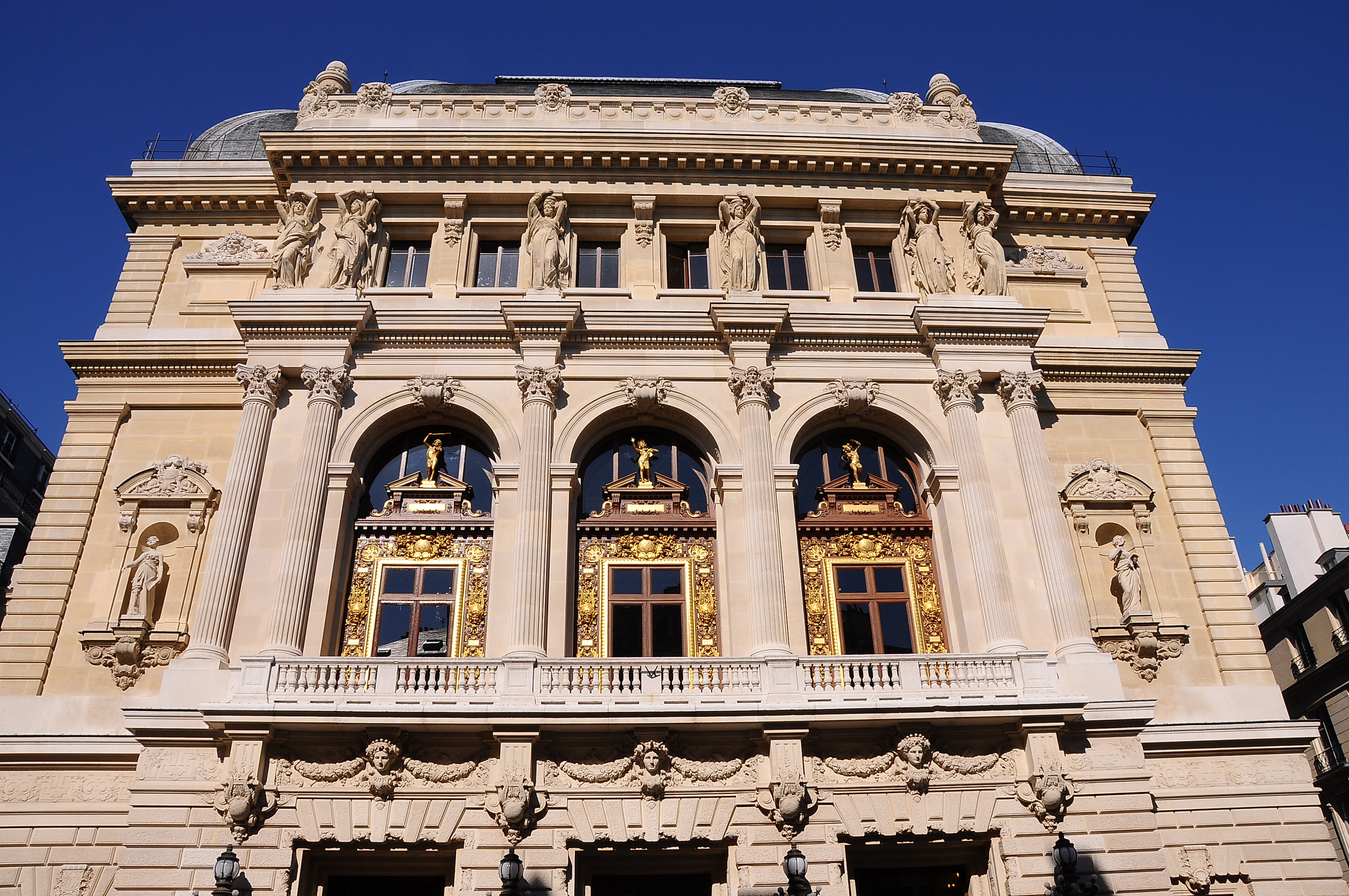 Opéra Comique of Paris, located at rue Favart in the 2nd arrondissement of Paris in France.